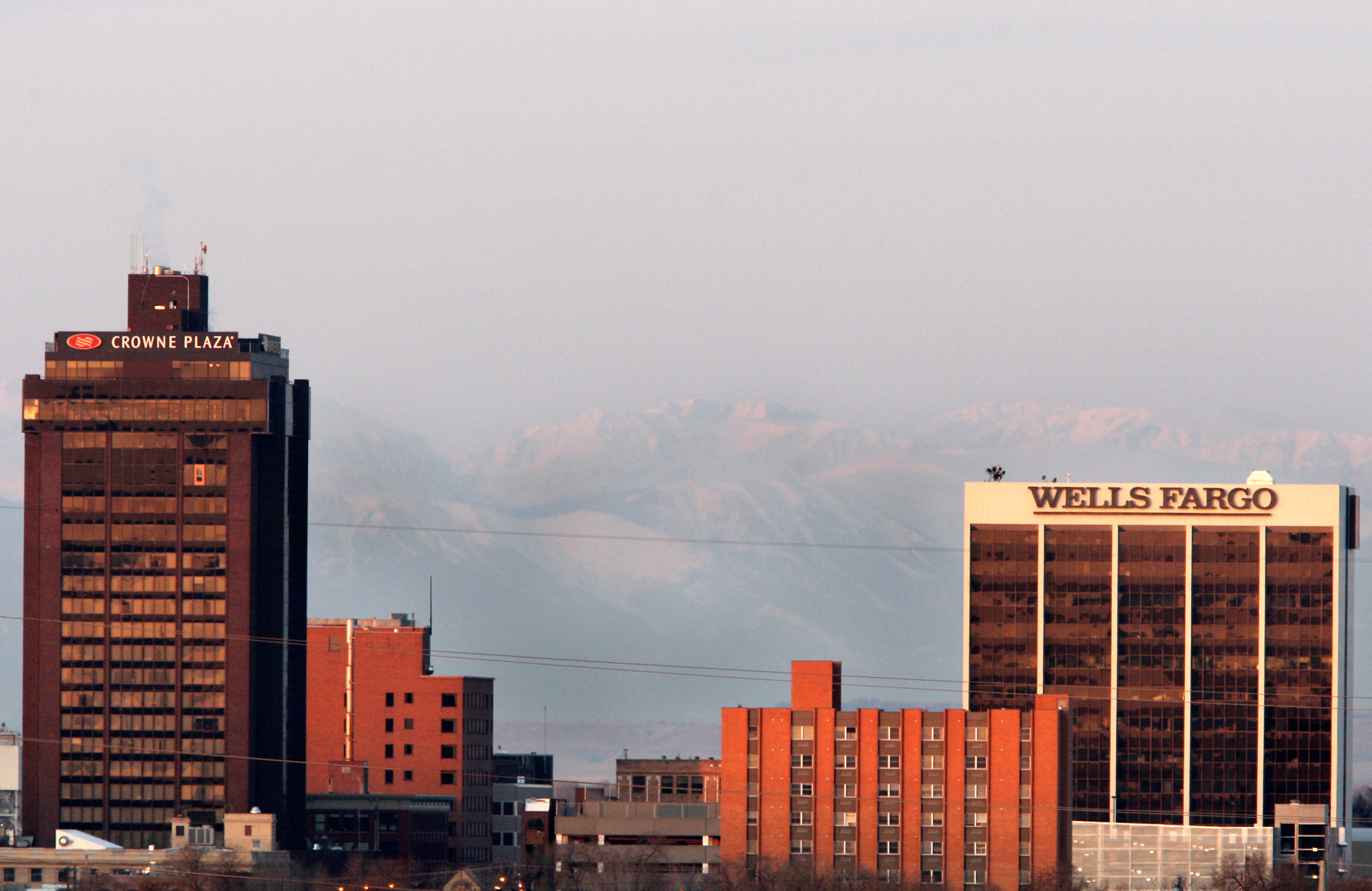 The Billings skyline on Easter Sunday March 23, 2008